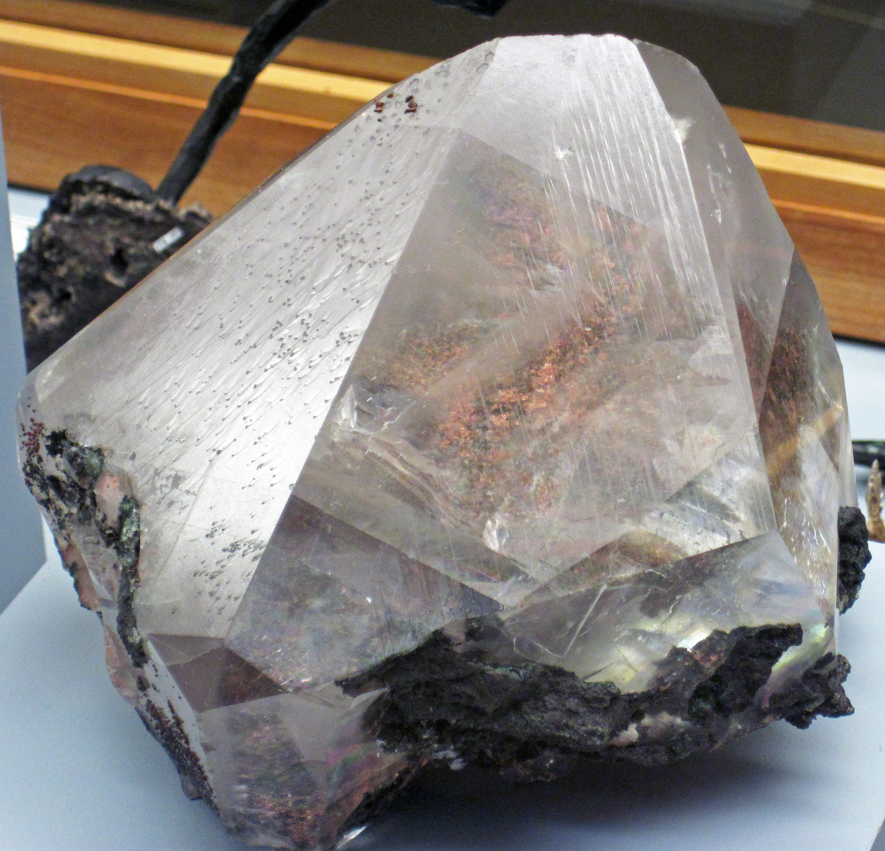 Native copper (Cu) in a large calcite crystal from the Precambrian of northern Michigan, USA. (public display, Seaman Mineral Museum, Michigan Technological University, Houghton, Michigan, USA) The bedrock in northern Michigan's Keweenaw Peninsula area with Earth's highest concentration of elemental copper (Cu) in its native state. The copper has been extensively mined, but only one active mine remains (all the easily exploited copper is now mined out). Copper usually occurs in various late Mesoproterozoic-aged basaltic rocks and conglomerates. A beautiful and rare occurrence for native copper in northern Michigan is WITHIN other crystals. The above photo shows a large, transparent to translucent calcite crystal having metallic orange-colored inclusions of native copper. Stratigraphy & age: derived from the upper Portage Lake Volcanic Series, upper Mesoproterozoic (1.093 Ga); copper & calcite mineralization age is late Mesoproterozoic (1.05 to 1.06 Ga). Locality: Quincy Mine, city of Hancock, north of Portage Lake, Keweenaw Peninsula, Houghton County, northwestern Upper Peninsula of Michigan, USA.